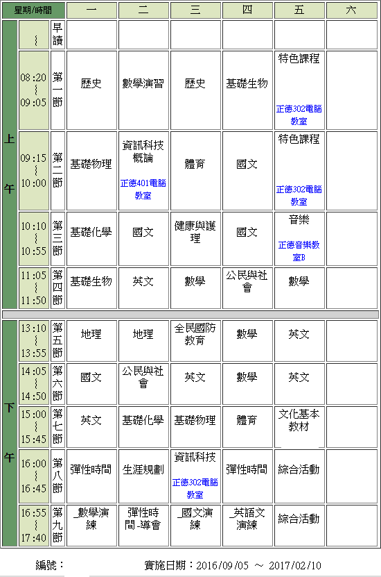 Captured directly from online system and have deleted the teacher's name for their privacy.